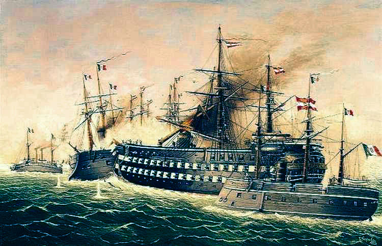 An image of the Austrian triple-decker wooden battleship Kaiser (centre of picture) ramming the Italian ironclad Re di Portogallo, during the battle of Lissa, 1866. Painting by Eduard Nezbeda, 1911.